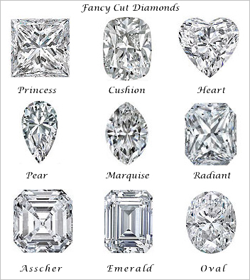 princess, cushion, heart, pear, marquise, radiant, asscher, emerald, oval